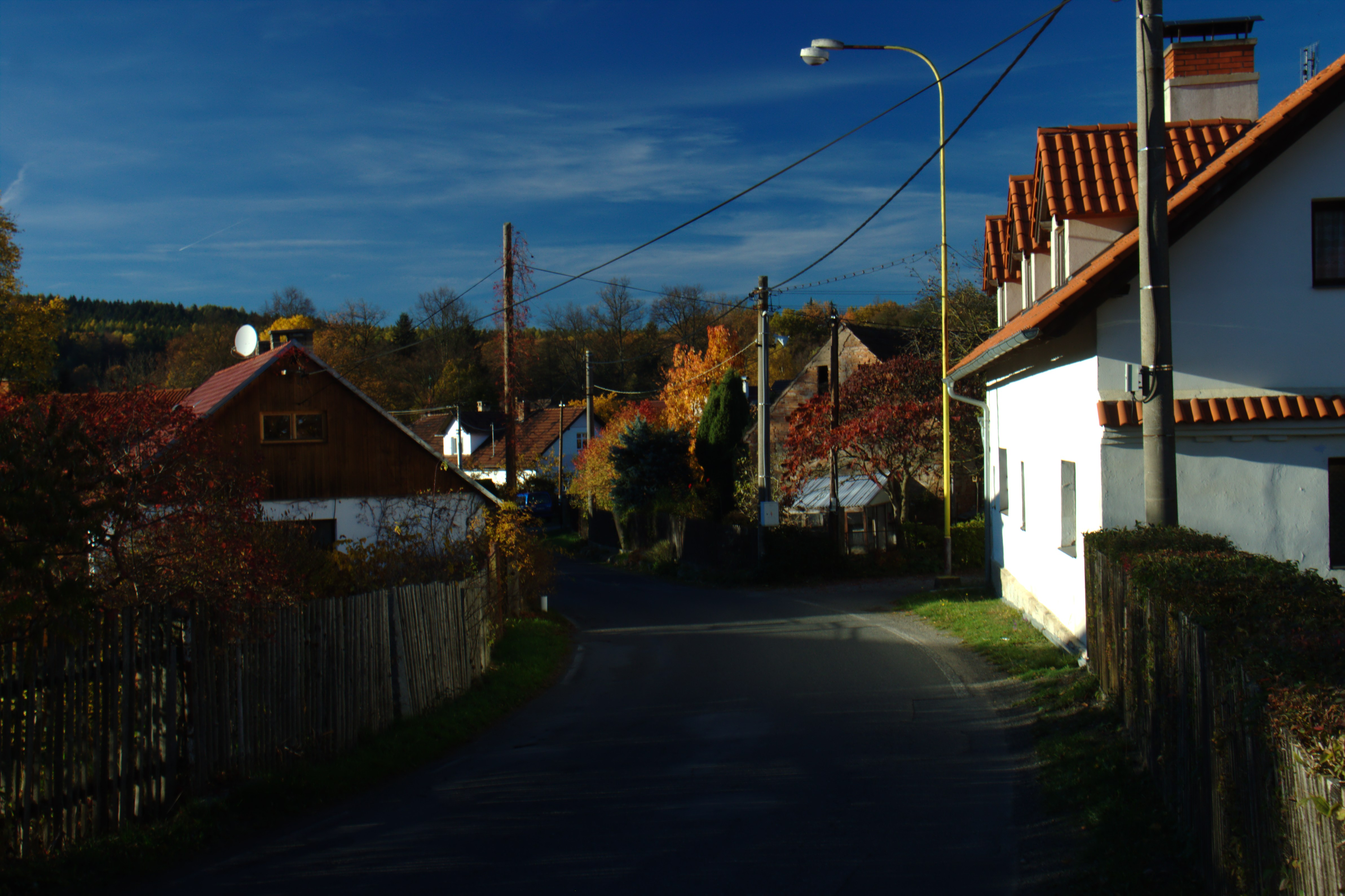 Buildings in the village of Vacíkov, Central Bohemian Region, CZ